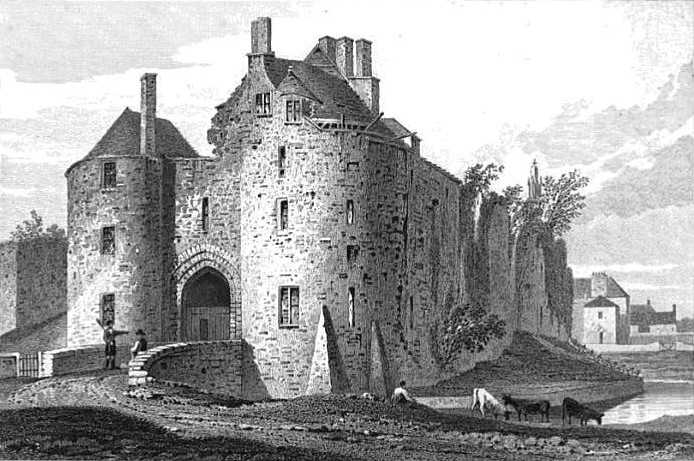 A Victorian sketch of St Briavels Castle